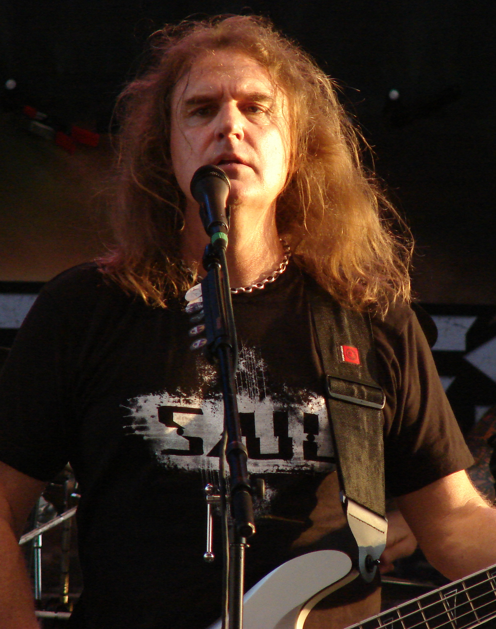 David Ellefson performing at the Illinois State Fair in 2019